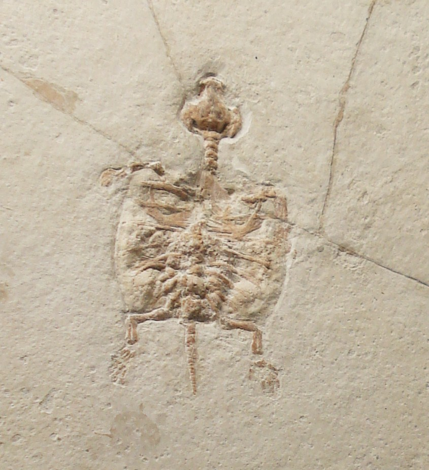 fossil of eurysternum